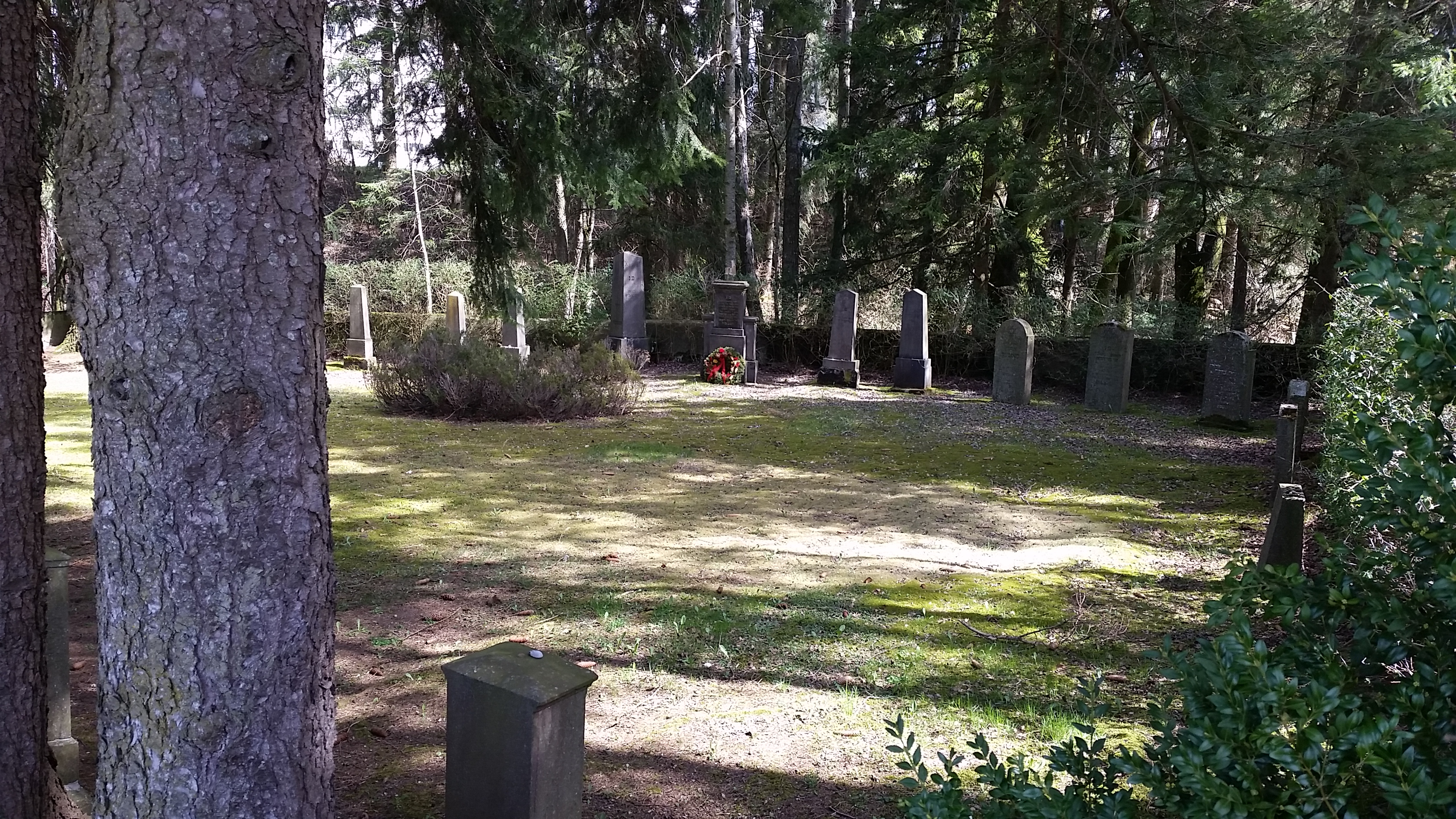 Jewish Concentration Camp cemetary in Holzhausen (Igling)